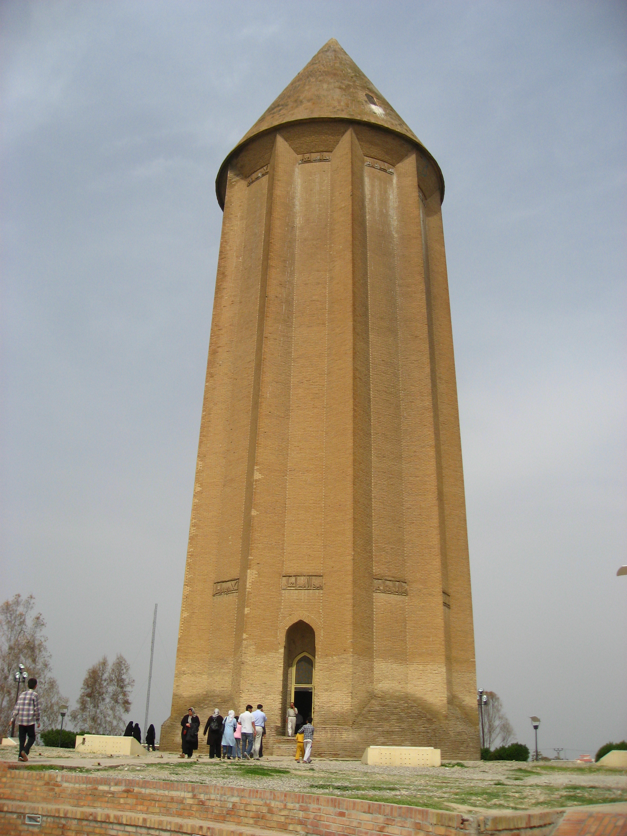 Gonbad-e Qâbûs Mausoleum — in Golestan province, Iran. 10th-century Ziyarid dynasty architecture.